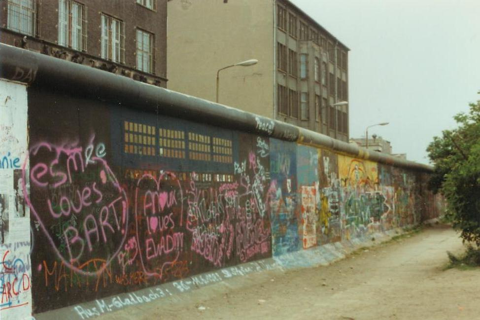 The West Berlin side of the Berlin Wall, between the boroughs of Tiergarten and Mitte. Photograph taken by User:Angr in June 1989.